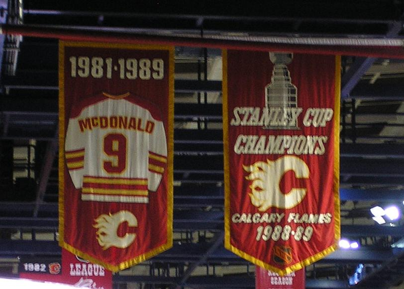 Stanley Cup championship and Lanny McDonald's jersey banners that formerly hung from the rafters of the Scotiabank Saddledome in Calgary. They were replaced sometime around 2009-2010.